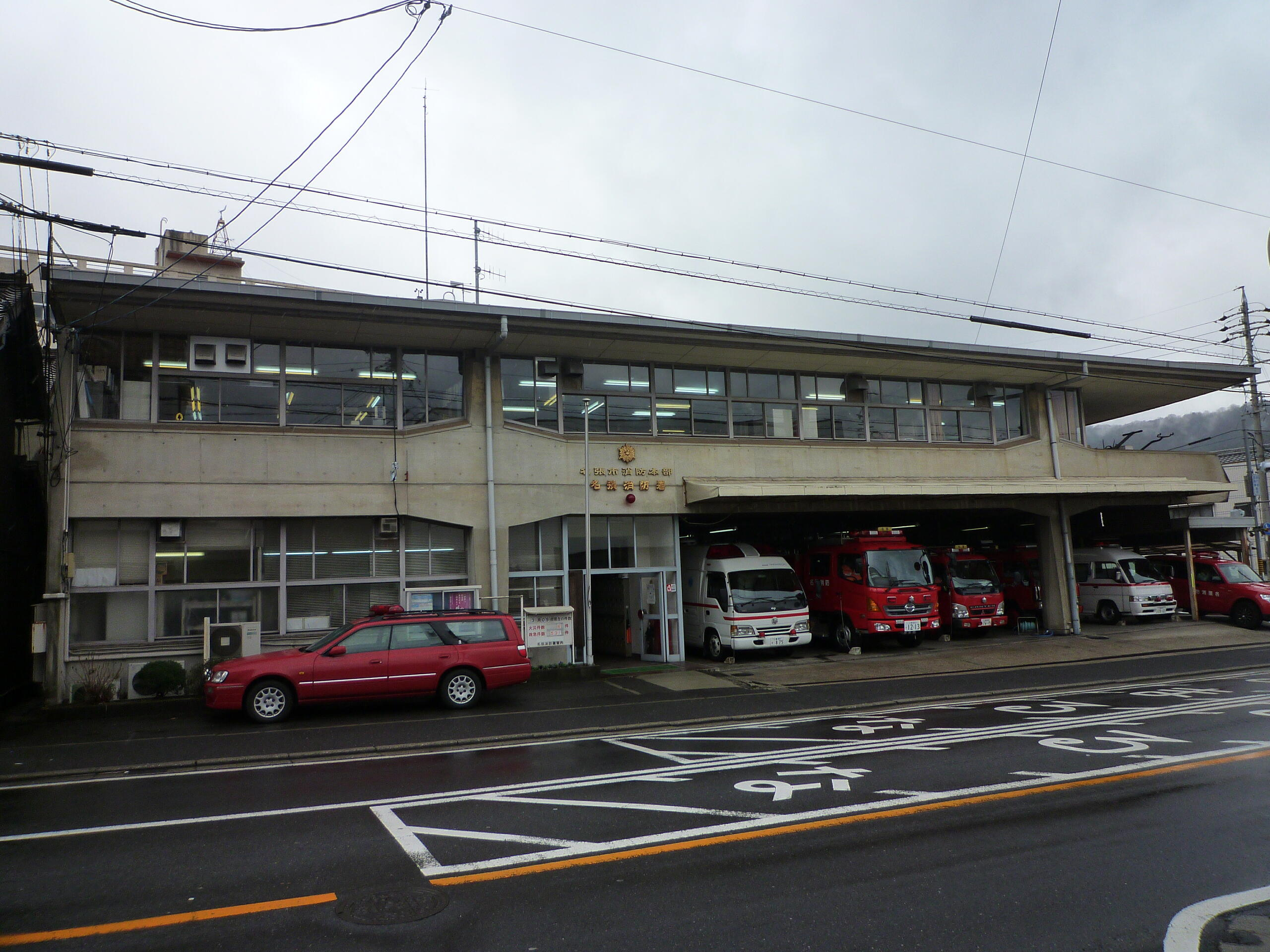 Former "Nabari Fire Station" in Sakaemachi, Nabari City, Mie Prefecture, Japan.It moved to Nabari City Kounodai on June 21, 2010.